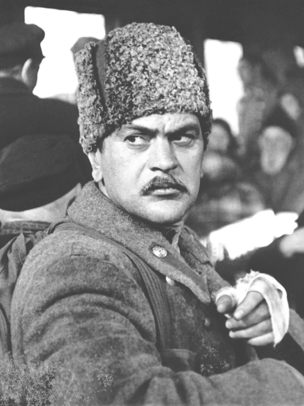 The Moldavian actor Ion Ungureanu in a film "Red storm". Moldova-film 1971.